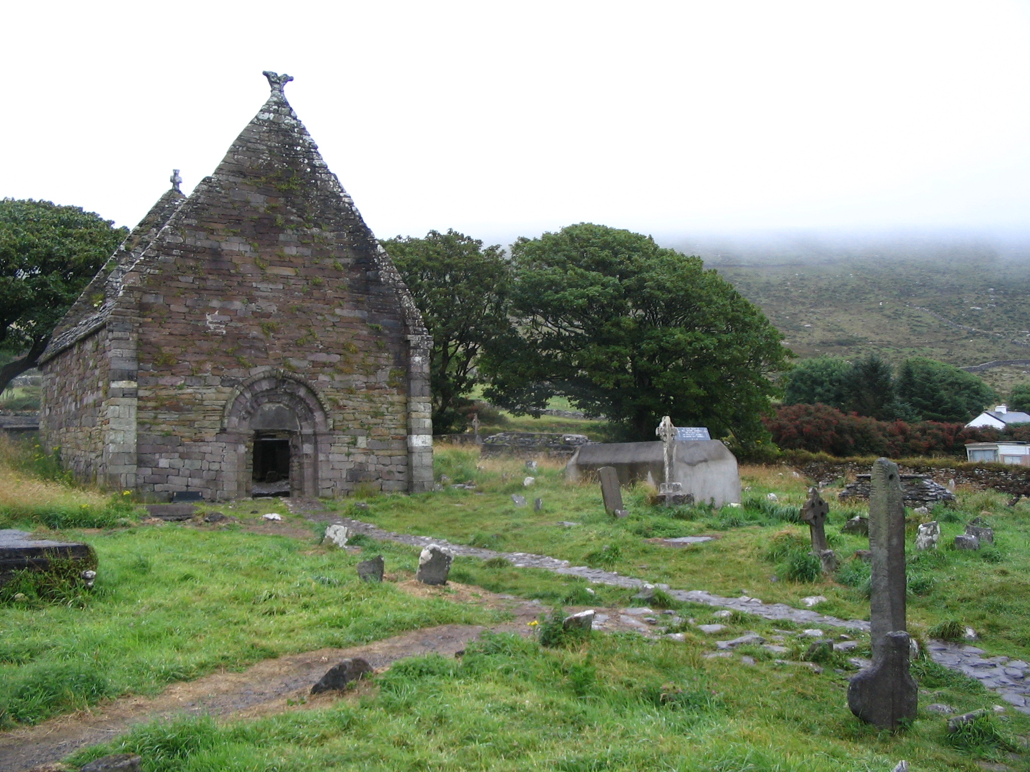 Kilmakedar medieval church- Dingle peninsula - Kerry conty - Ireland